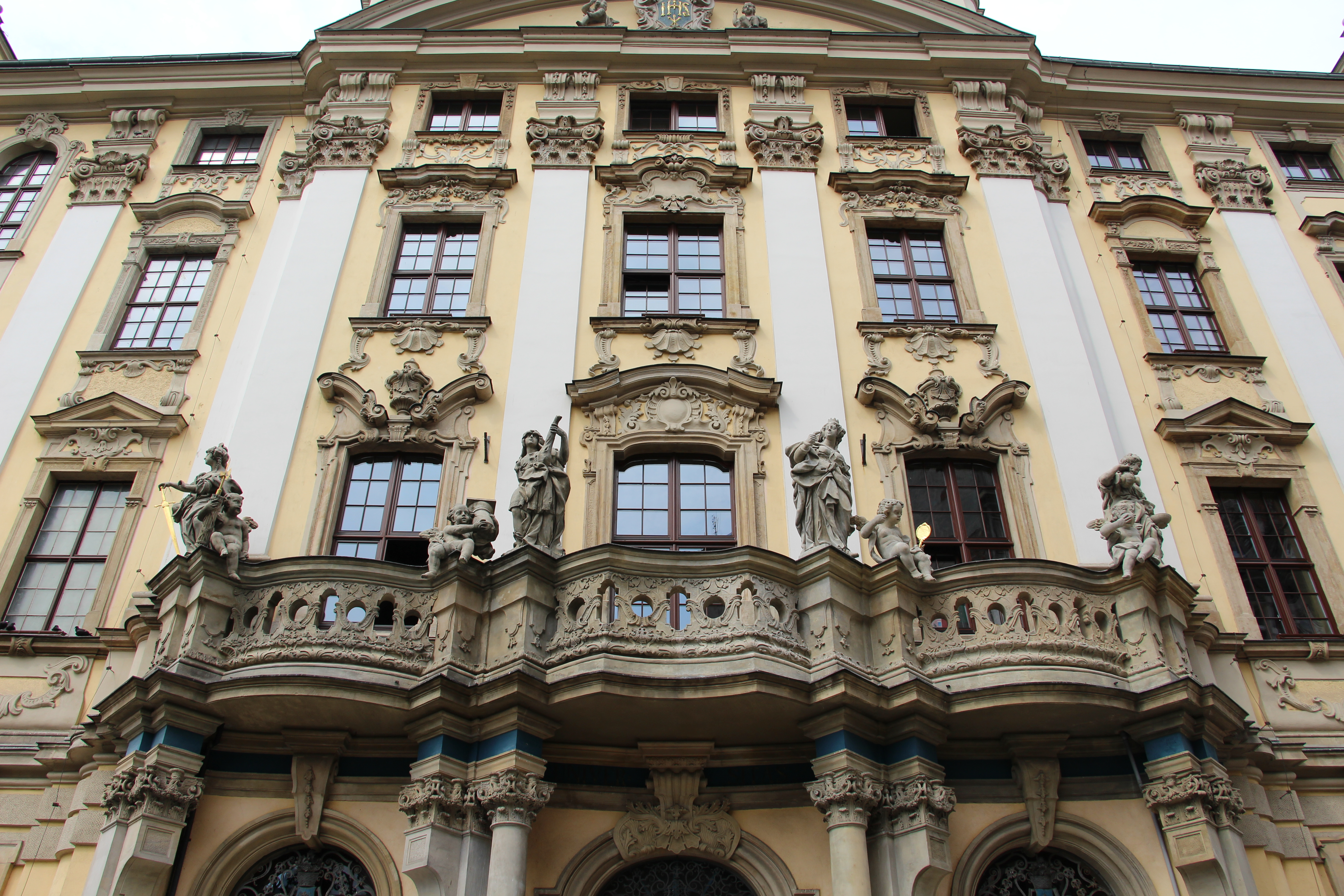 Plac Uniwersytecki University of Wroclaw - former Schlesische Friedrich-Wilhelms-Universität Universitas Leopoldina. On November 15, 1702, the university opened. Following postwar border shifts, the Polish Jan Kazimierz University of Lwów, complete with library and Ossolineum was moved from Kresy to Wrocław. The first Polish team of academics arrived in Wrocław in late May 1945 and took custody of the university buildings, and started to rearrange the university buildings, which were 70% destroyed. The University of Wrocław was refounded as a Polish state university by the decree of the State National Council issued on August 24, 1945